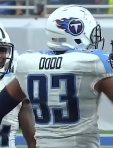 Titans linebacker Kevin Dodd vs. the Detroit Lions in 2016.